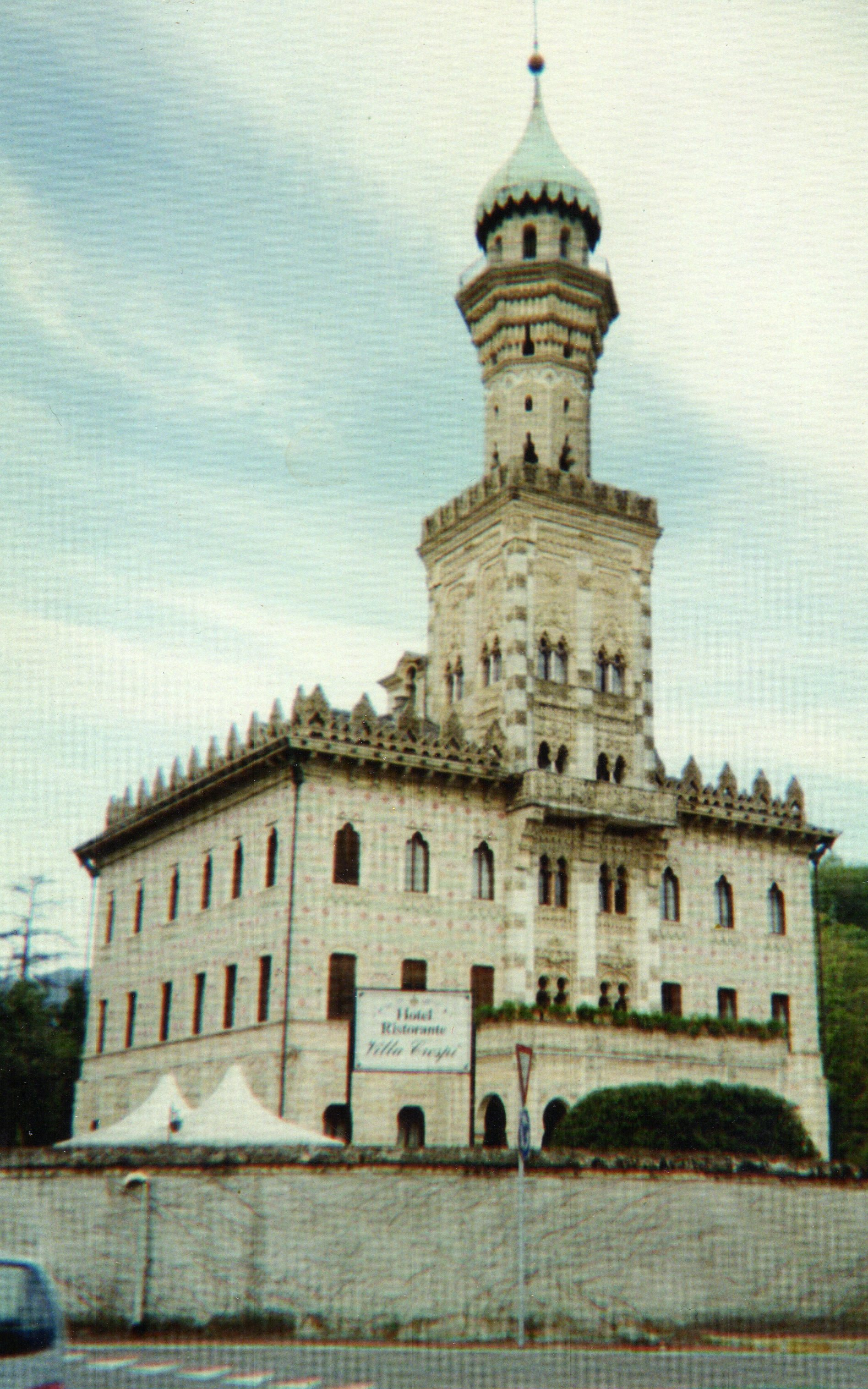 Villa Crespi in Orta San Giulio (Italy). Moorish style.